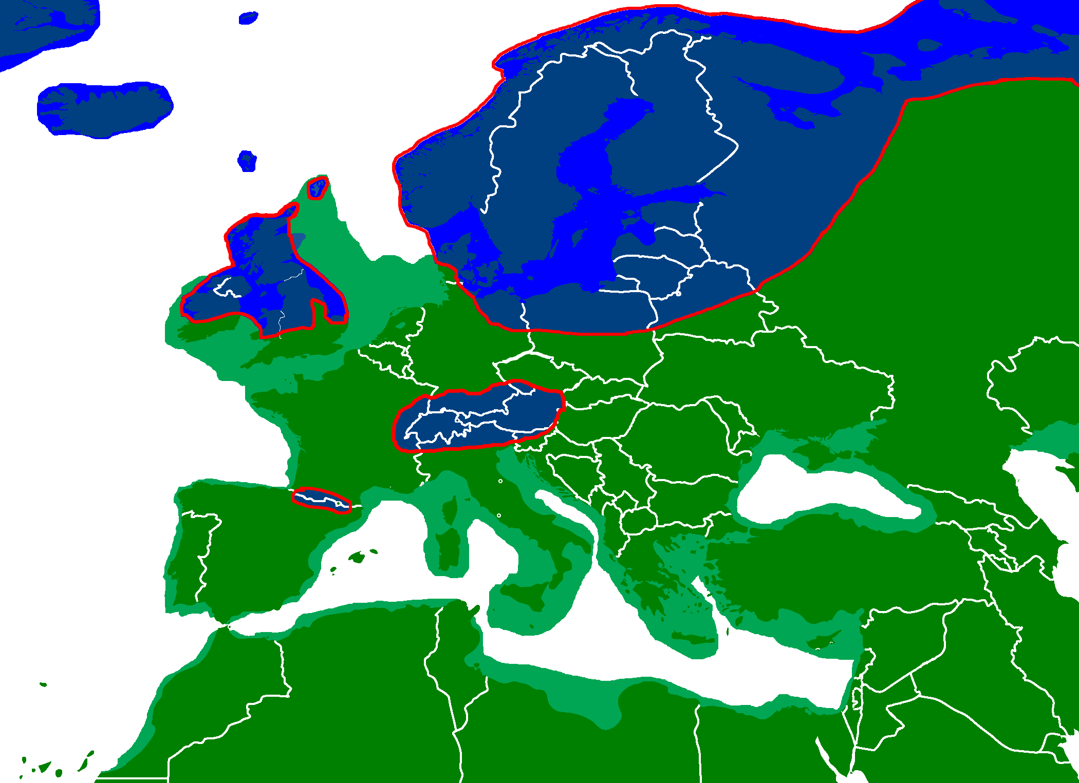 Map of Europe on last weiclesl glacial age maximum (LGM)